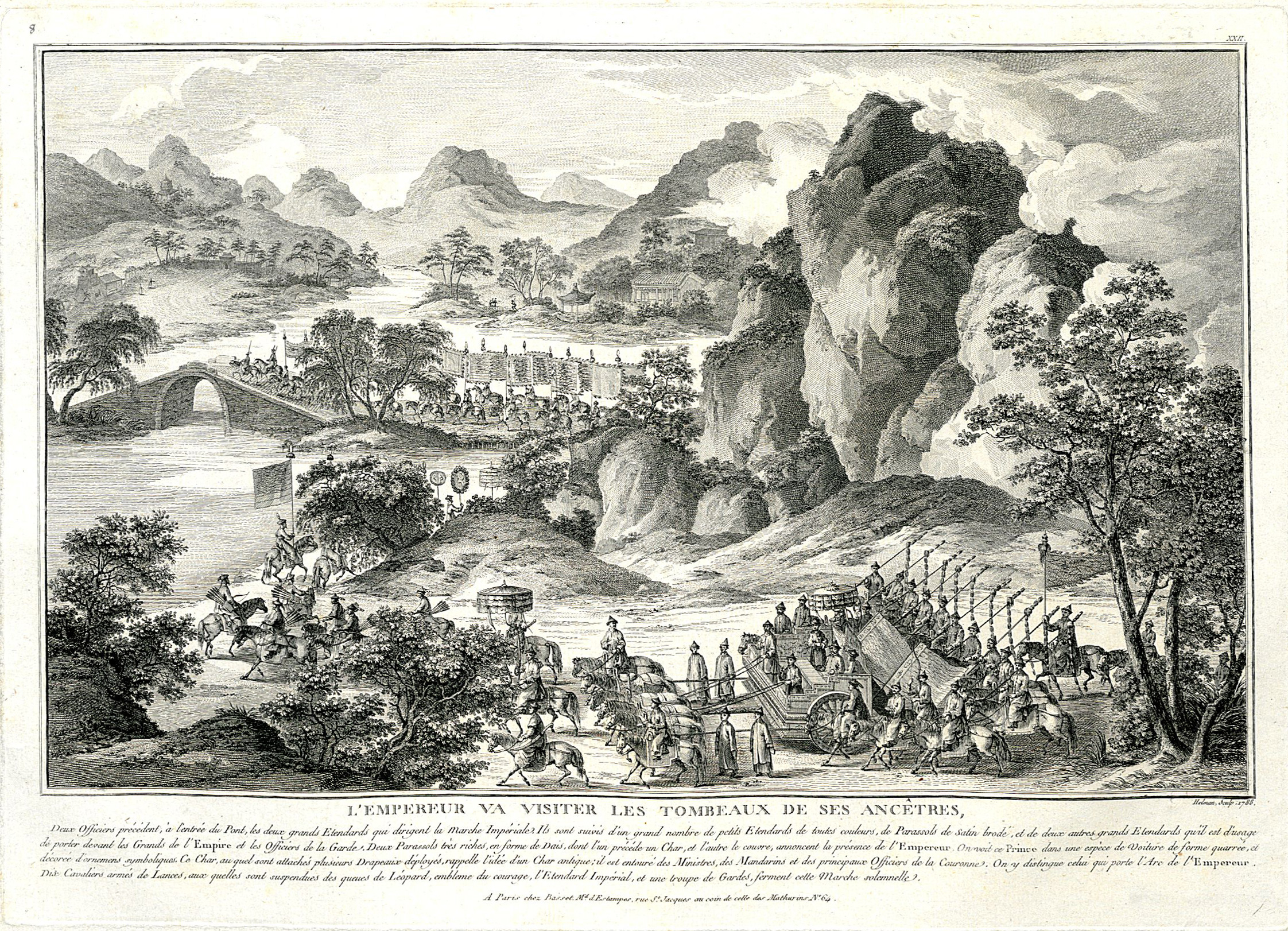 The Qianlong Emperor visits and pay his respects to the graves of his ancestors